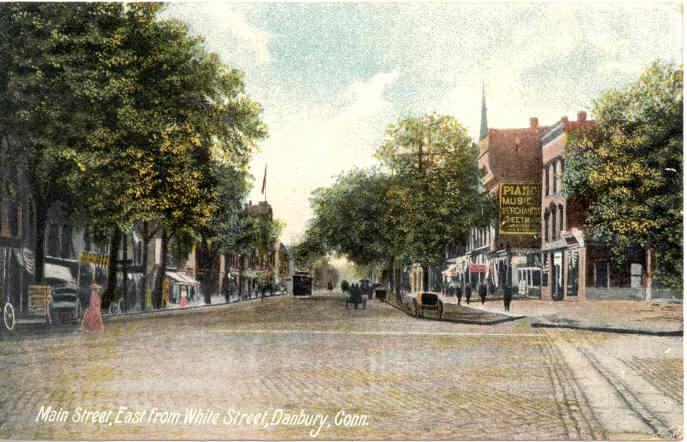 Postcard: Main Street, east from White Street, Danbury, 1907 postmark Description: "Music Store on the right and the Trolley Car down the center of the street. This Postcard is a divided back and is postally used, dated 1907." Source: eBay store Web page